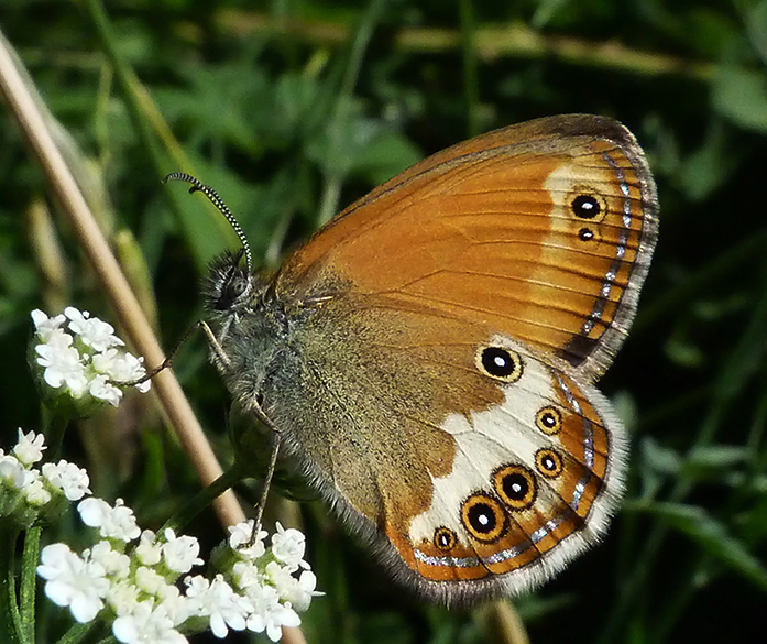 Adult near Argençola, Catalonia.